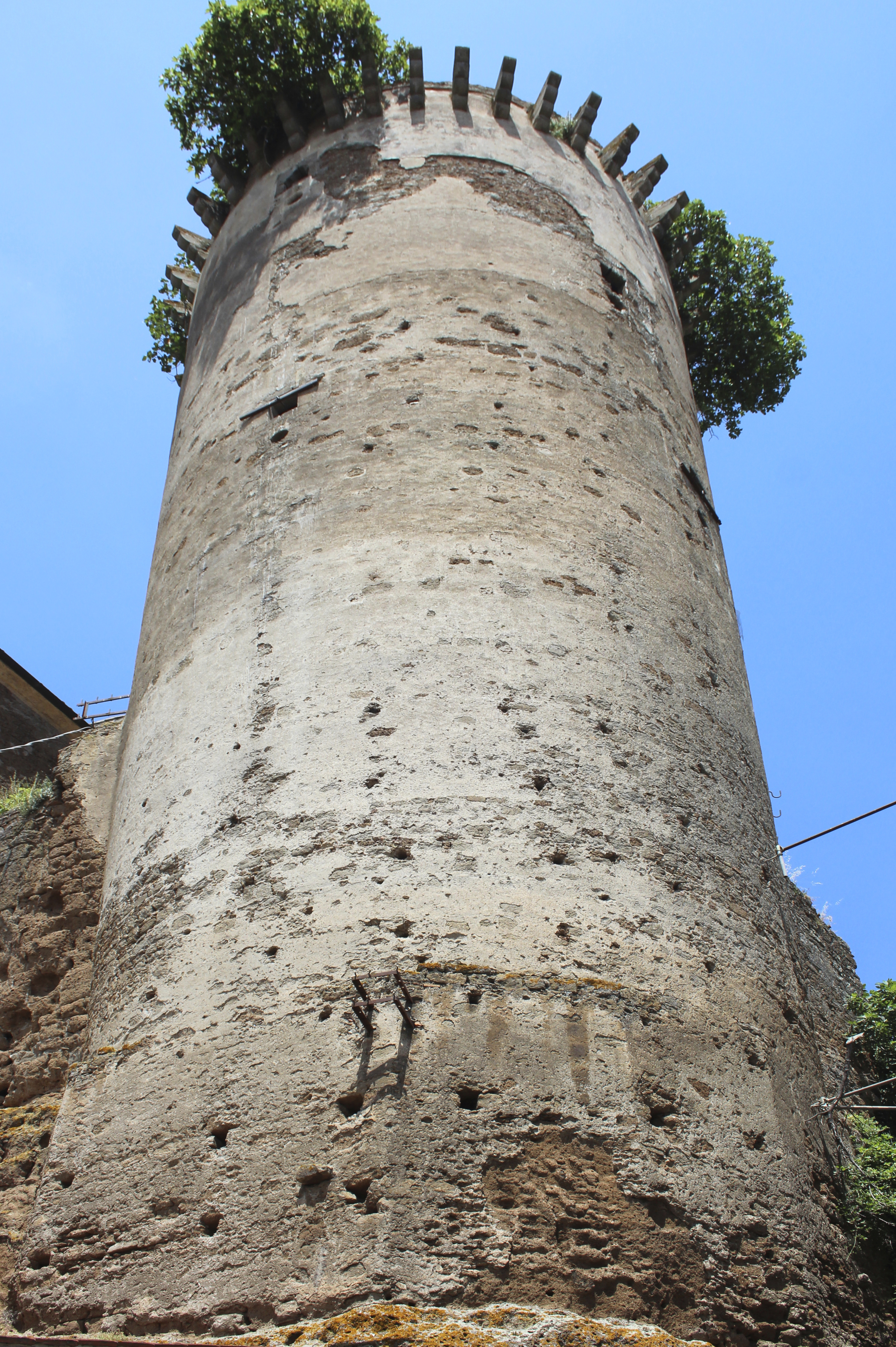 Tower Torre di Mugnano, Mugnano in Teverina, hamlet of Bomarzo, Province of Viterbo, Lazio, Italy